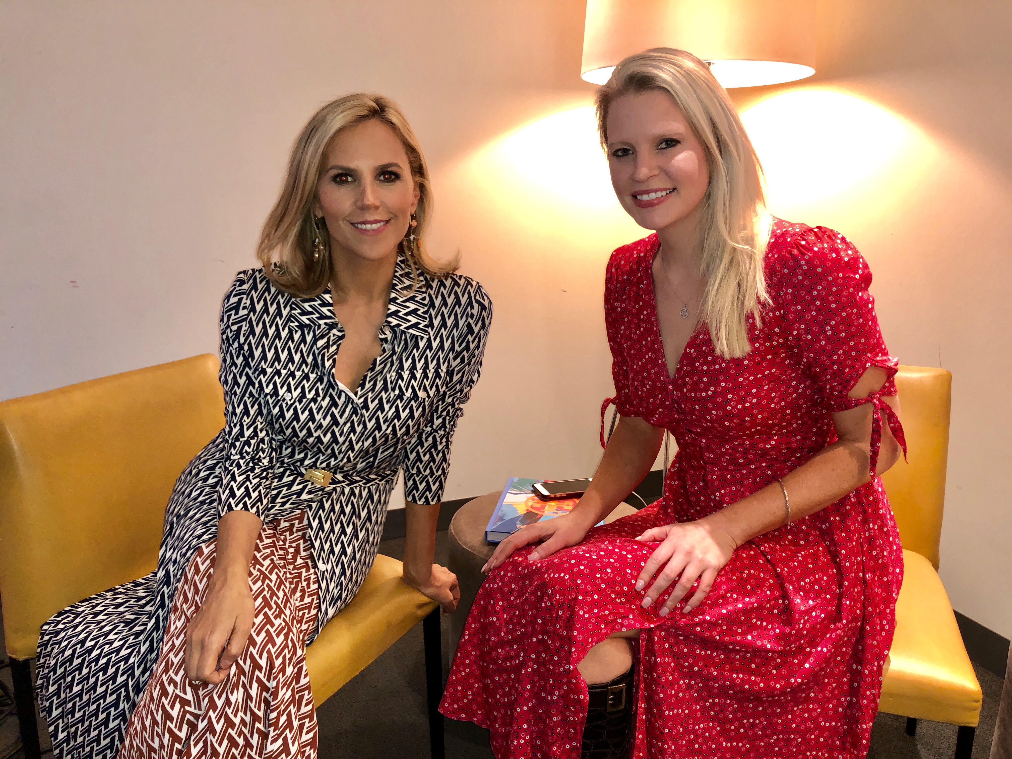 Field interviews Tory Burch in New York City